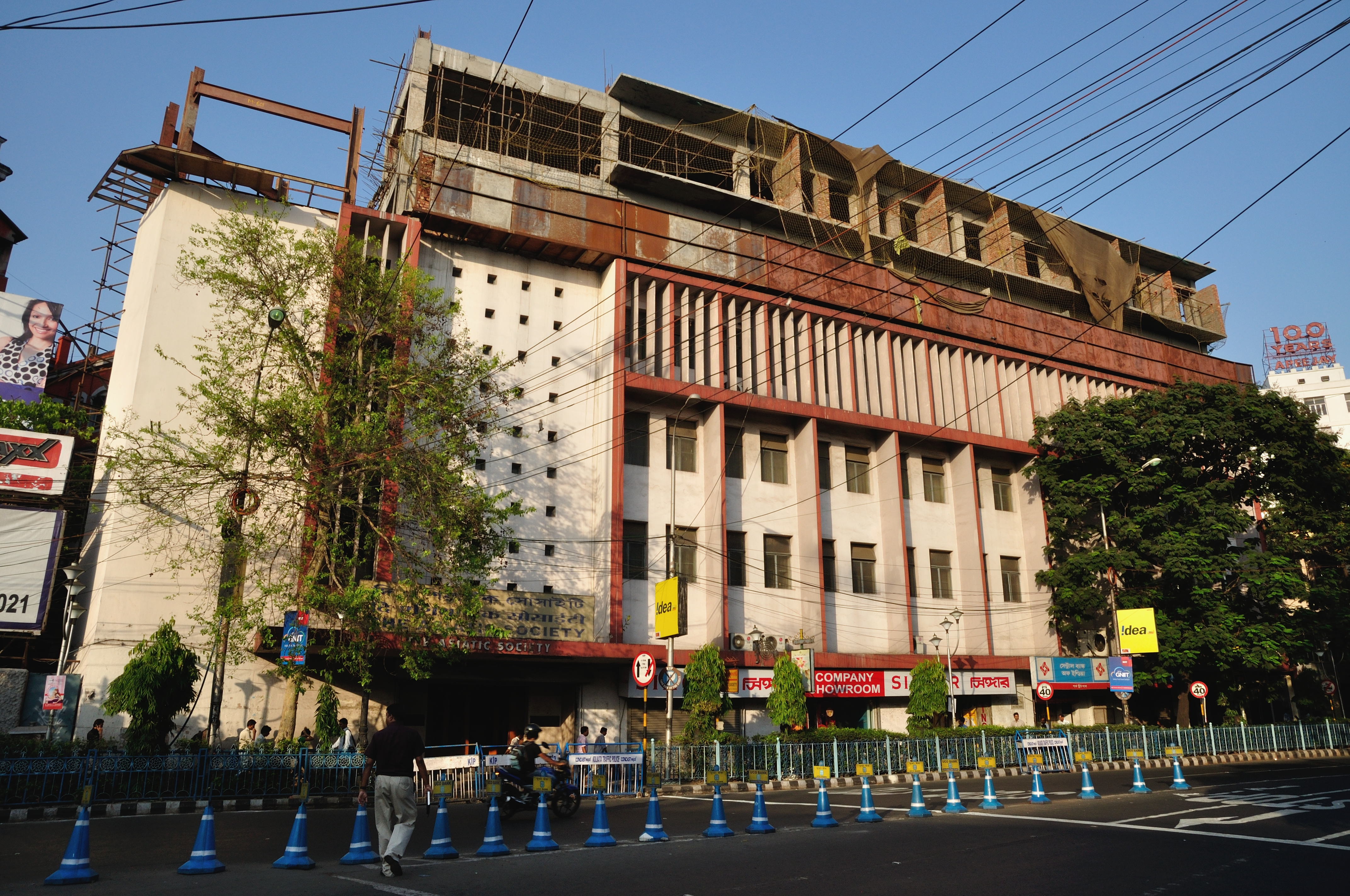 Photographed in greater Kolkata.